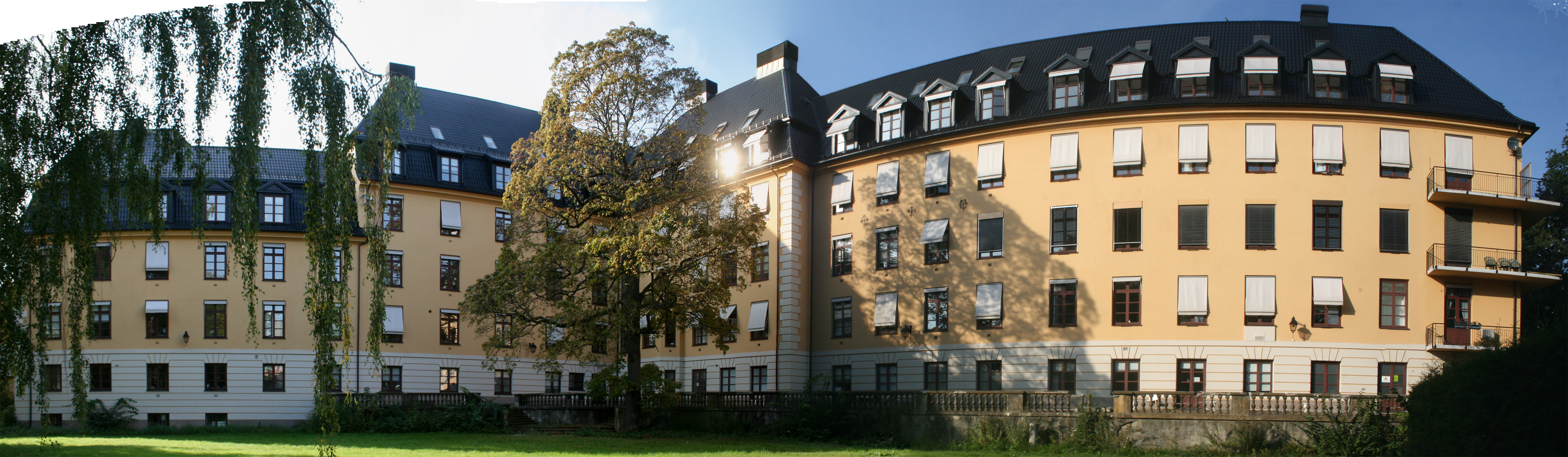 A private hospital at Frederik Stangs gate 11–13 in Oslo. Originally established by the Norwegian Red Cross, now owned by the Aleris group. Erected 1915–18; architects Morgenstierne and Eide. View from the garden.Panorama; somewhat distorted perspective.